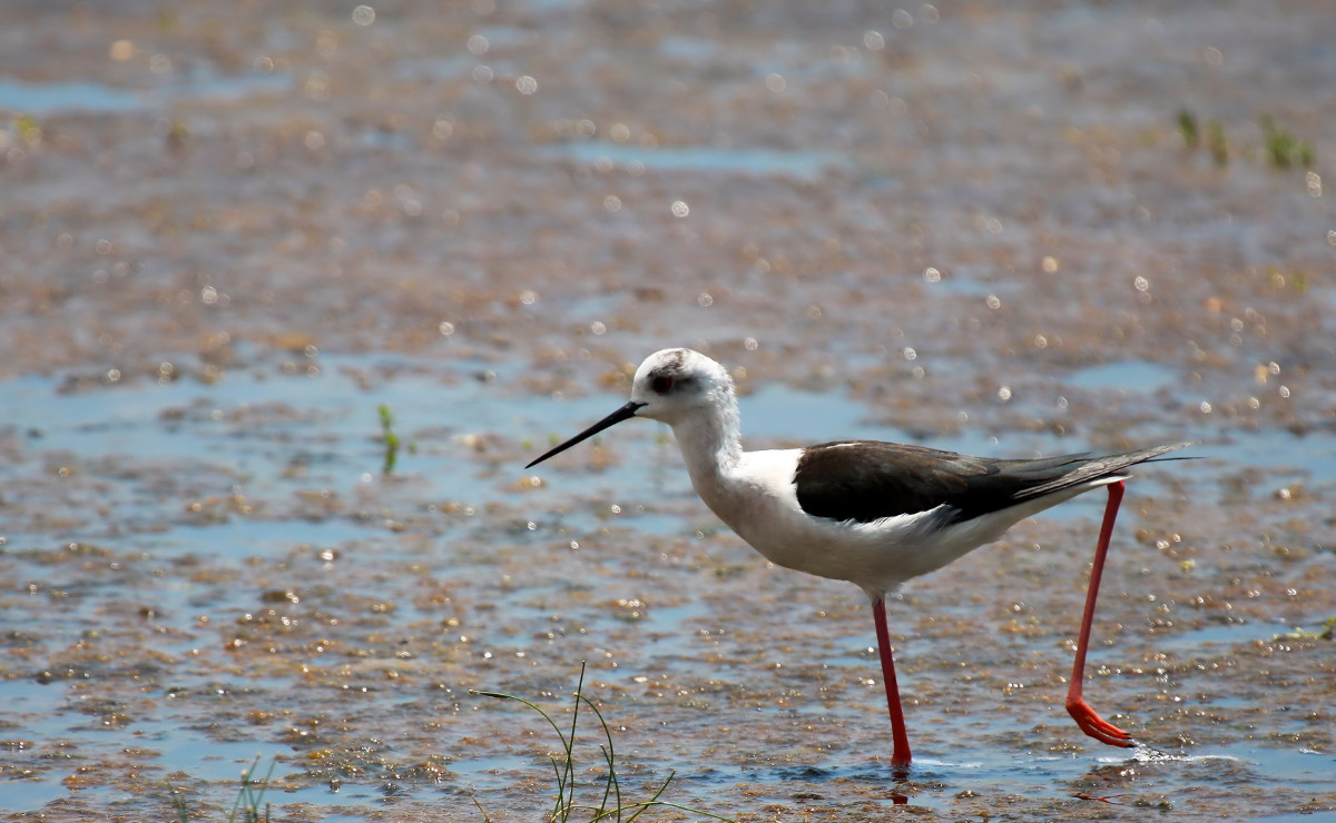 A Black-winged Stilt at Wilpattu National Park, Sri Lanka.